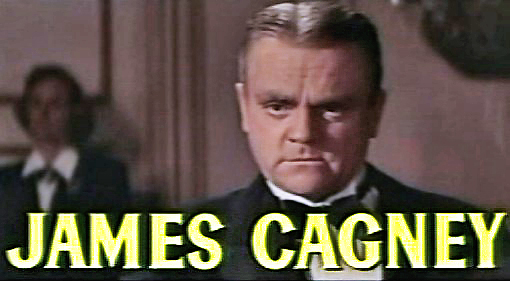 Cropped screenshot of James Cagney from the trailer for the film Love Me or Leave Me